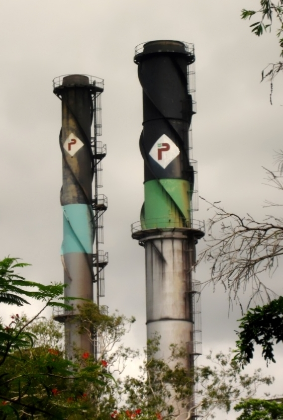 This is a recent photo of the Proserpine Mill Chimneys.